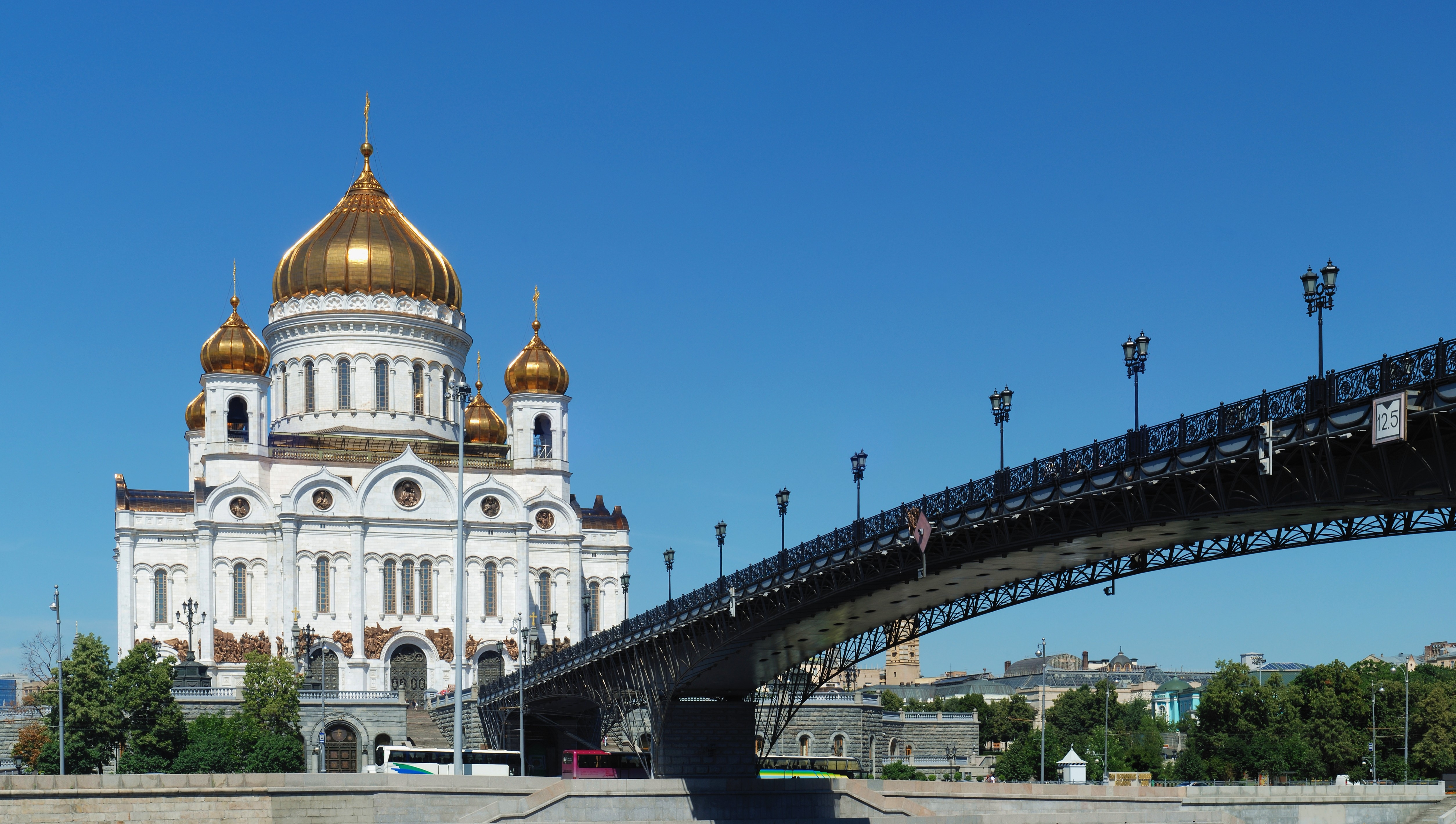 Cathedral of Christ the Saviour, Moscow. View from southeast, across the Moscow River.